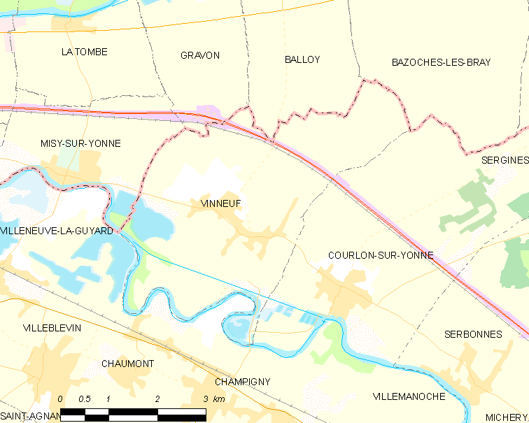 Map of French municipality Vinneuf